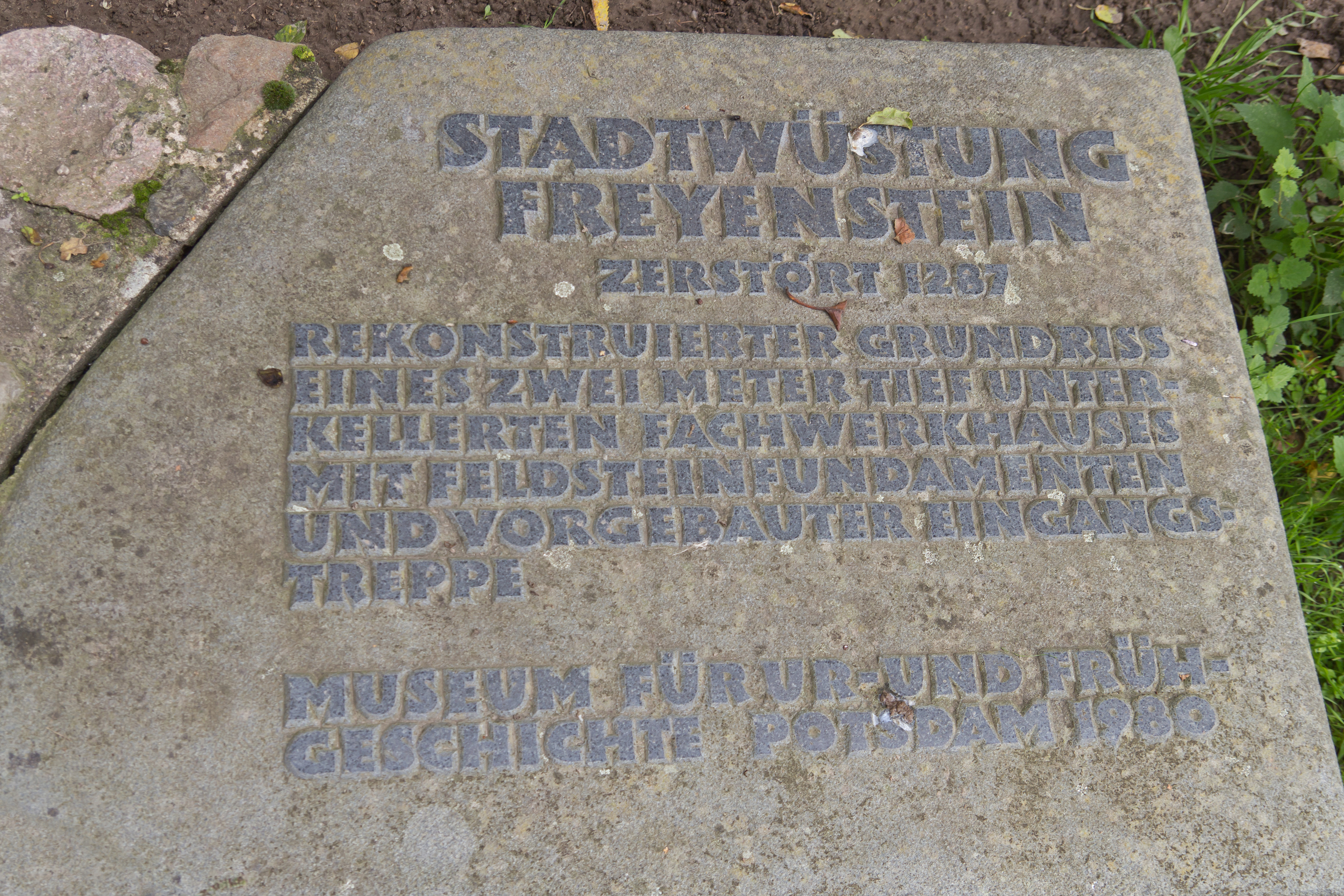 Archaeological Park Freyenstein, Brandenburg, Germany.